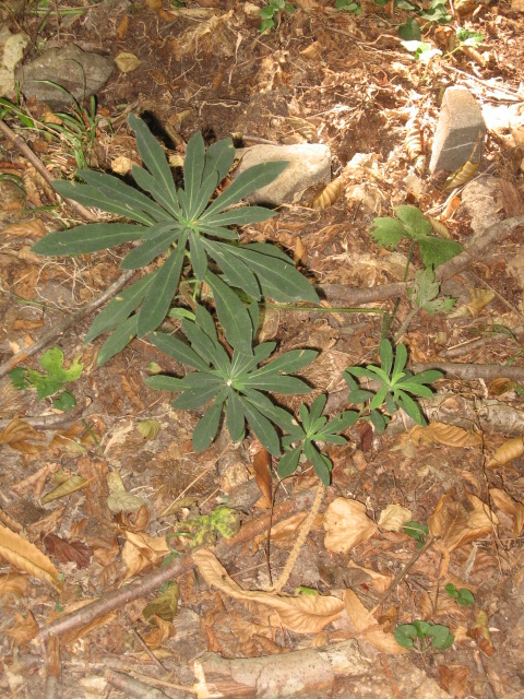 Euphorbia (Pisan Mountains)